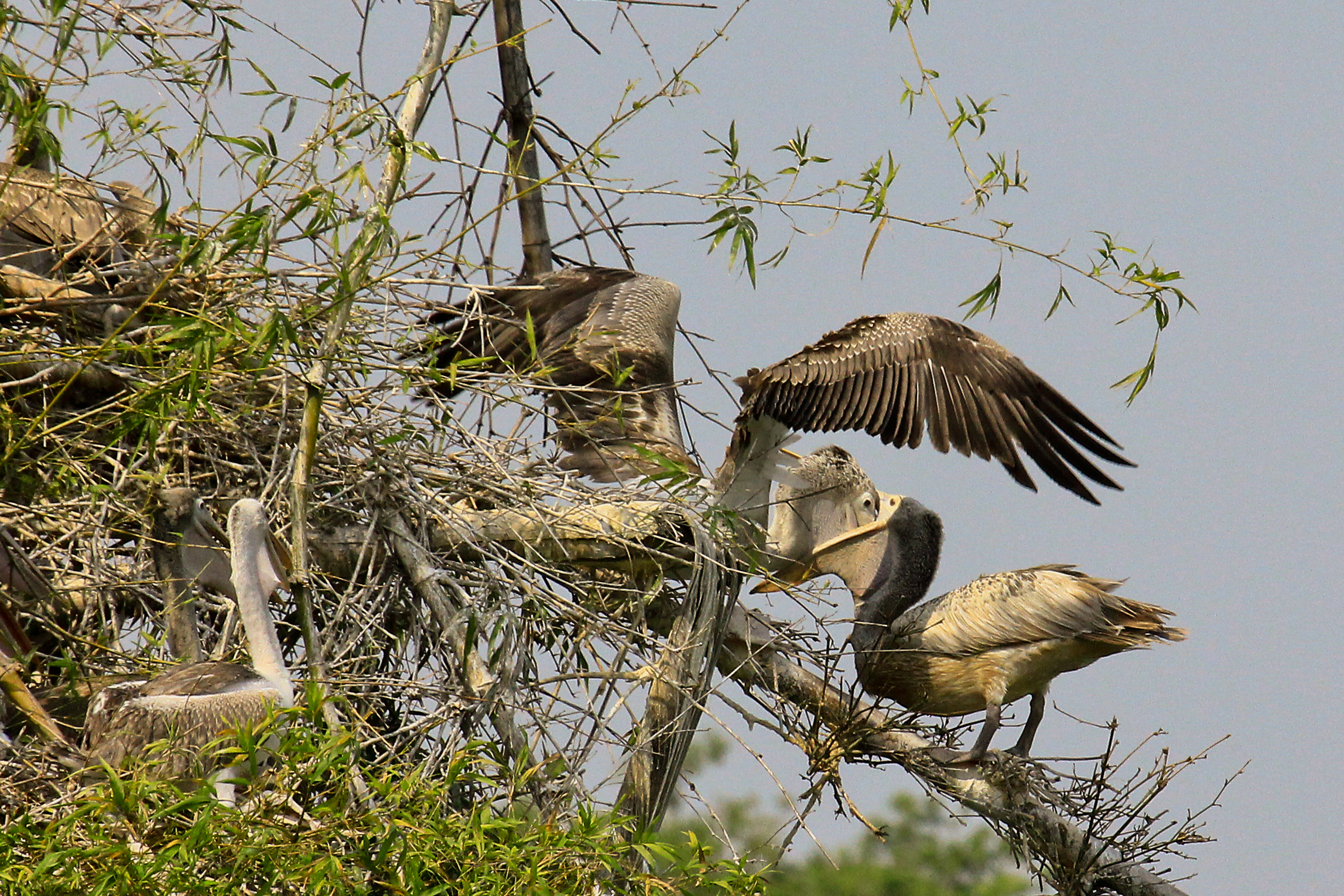 A Spot billed pelican feeding a juvenile. This was spotted on a colony of Pelicans at Vedanthangal bird sanctuary